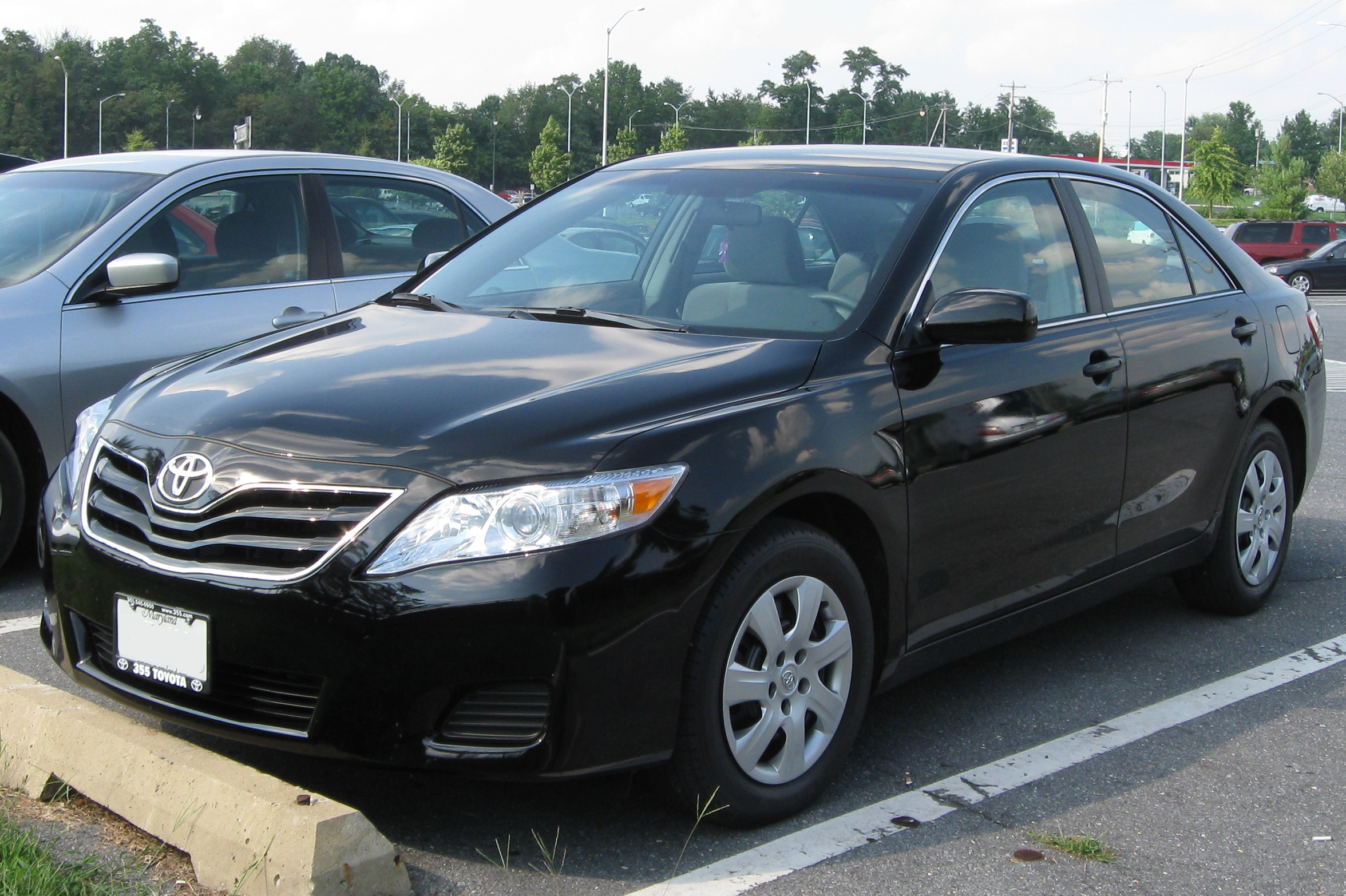 2010 Toyota Camry photographed in Urbana, Maryland, USA.